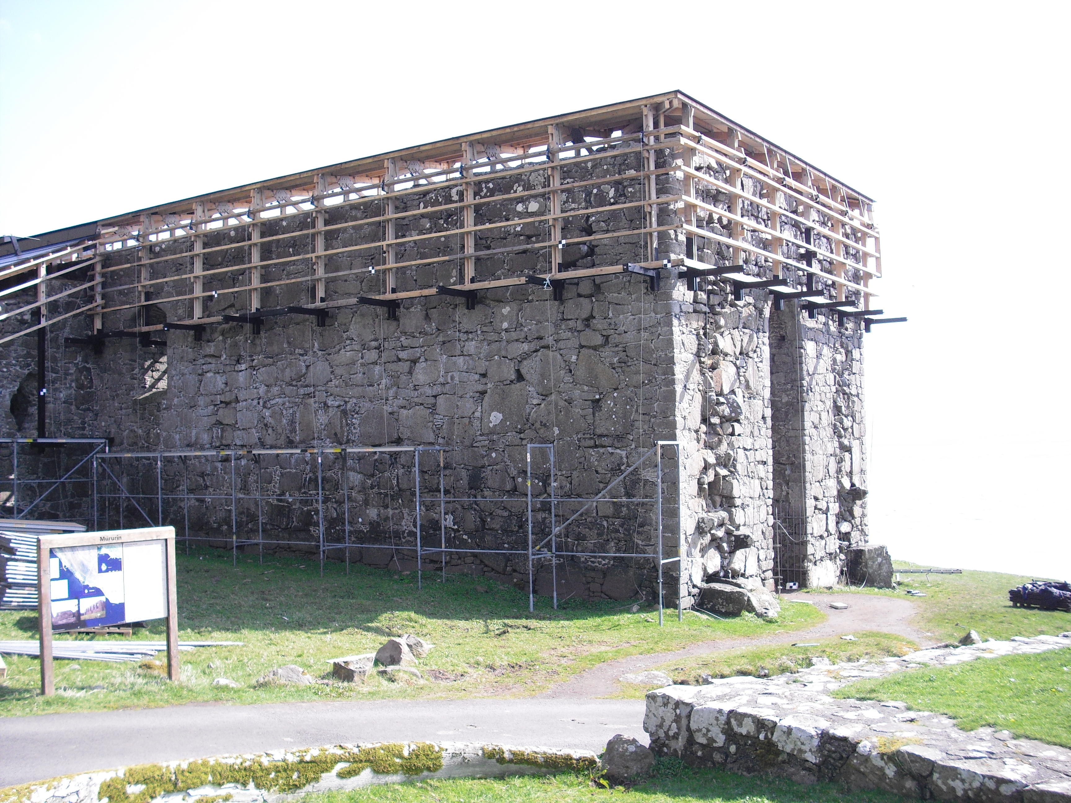 The ruins of the Magnus Cathedral at Kirkjubøur, Streymoy, Faroe Islands under restoration, May 2009.